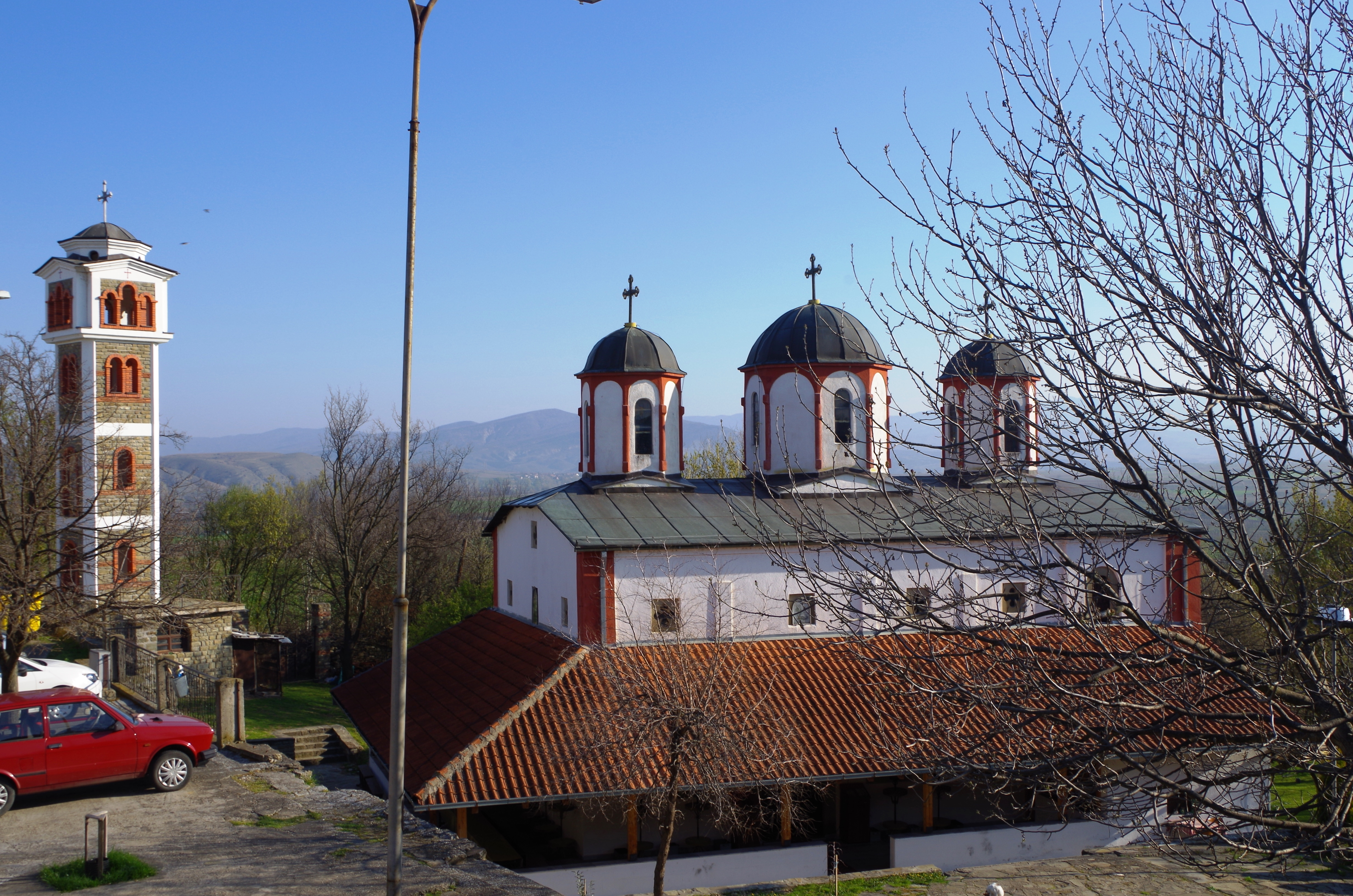 Negotino Monastery